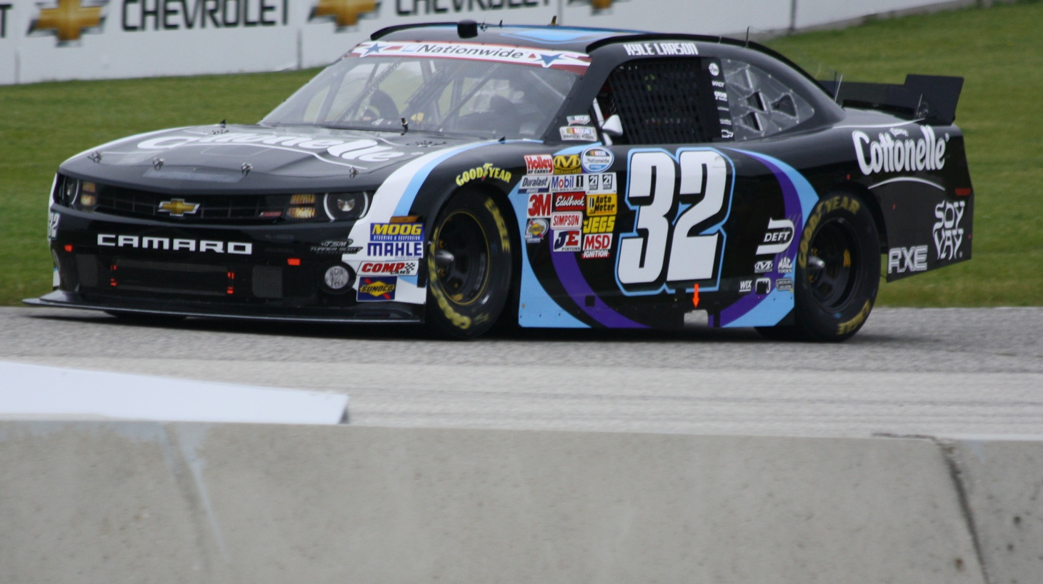 The NASCAR Nationwide car of Kyle Larson during the w:2013 Johnsonville Sausage 200 at Road America.